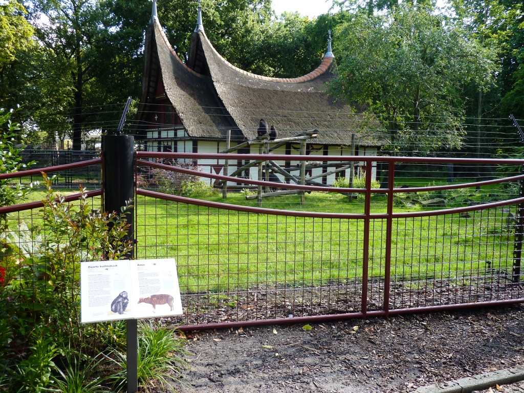 combination exhibit with crested black macaques and anoas.